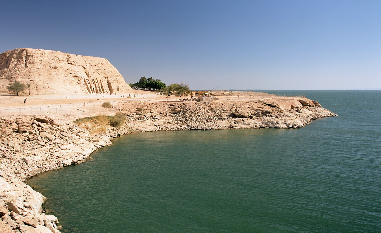 Steep-shored bay of Lake Nasser in front of the Temple of Nefertari in Abu Simbel, Egypt